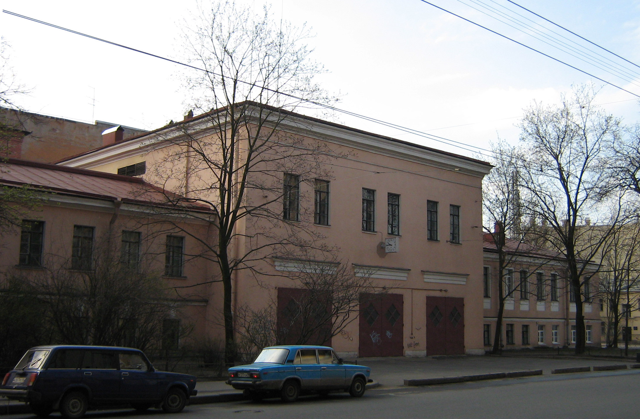 Bolshoy avenue of Petrograd side, 11 (Saint-Petersburg, Russia)